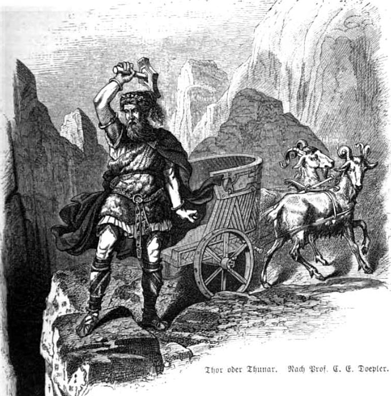 Thor oder Thunar. Thor with his chariot.